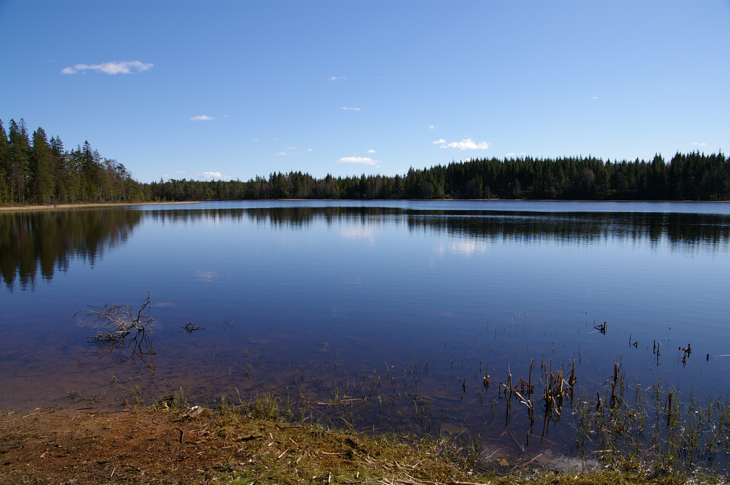 The lake Bergsjön situated on the table mountain Mösseberg in Falköping municipality, Västergötland, Sweden.